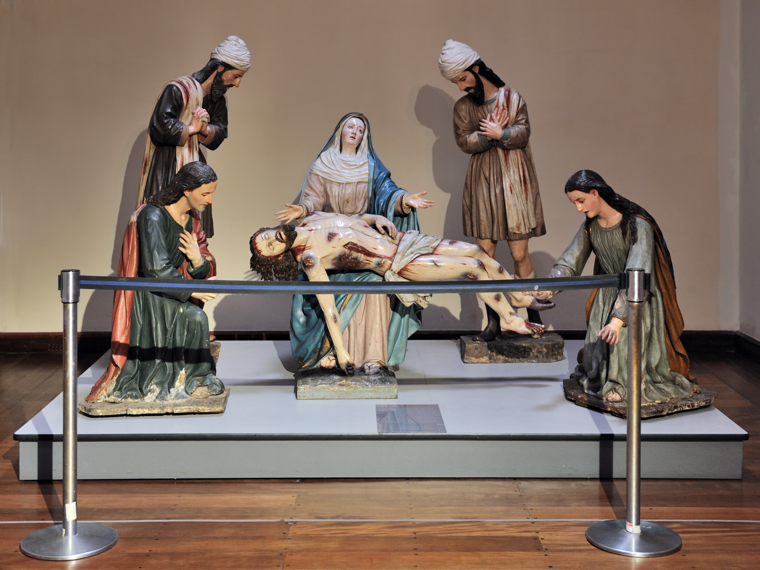 Cuenca, Ecuador: Pietà (Lamentation) in the Old Cathedral (Catedral Vieja). The cathedral was entirele renovated between 1999 and 2005.